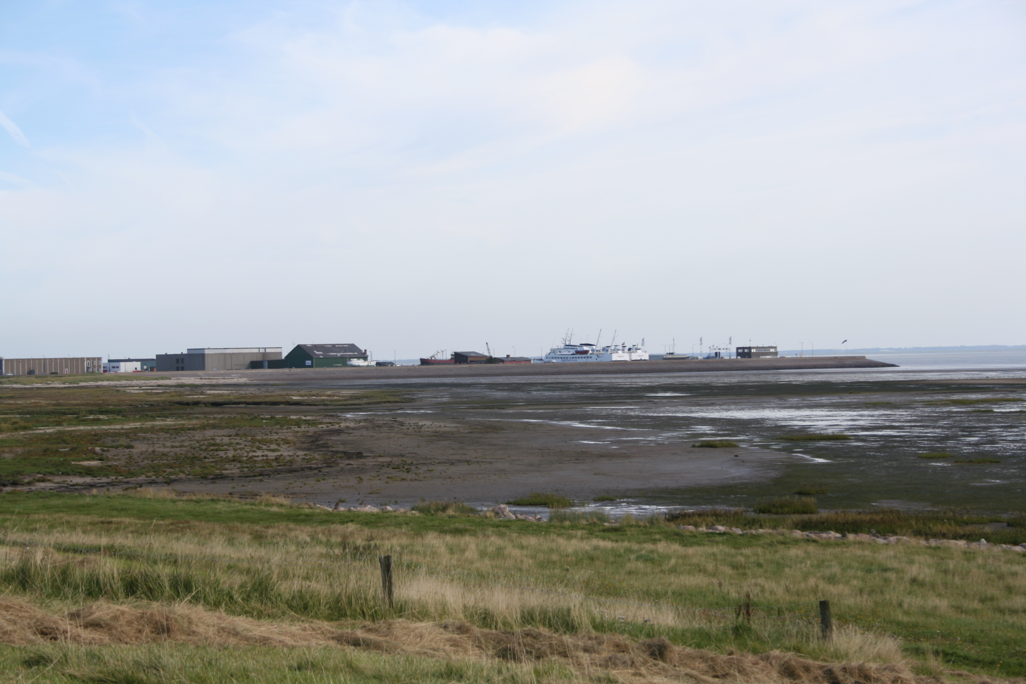 Helmodde with Havneby harbour in the background.